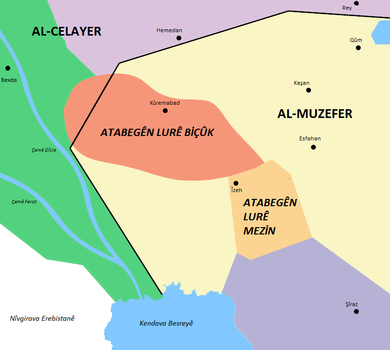 about kurdish people